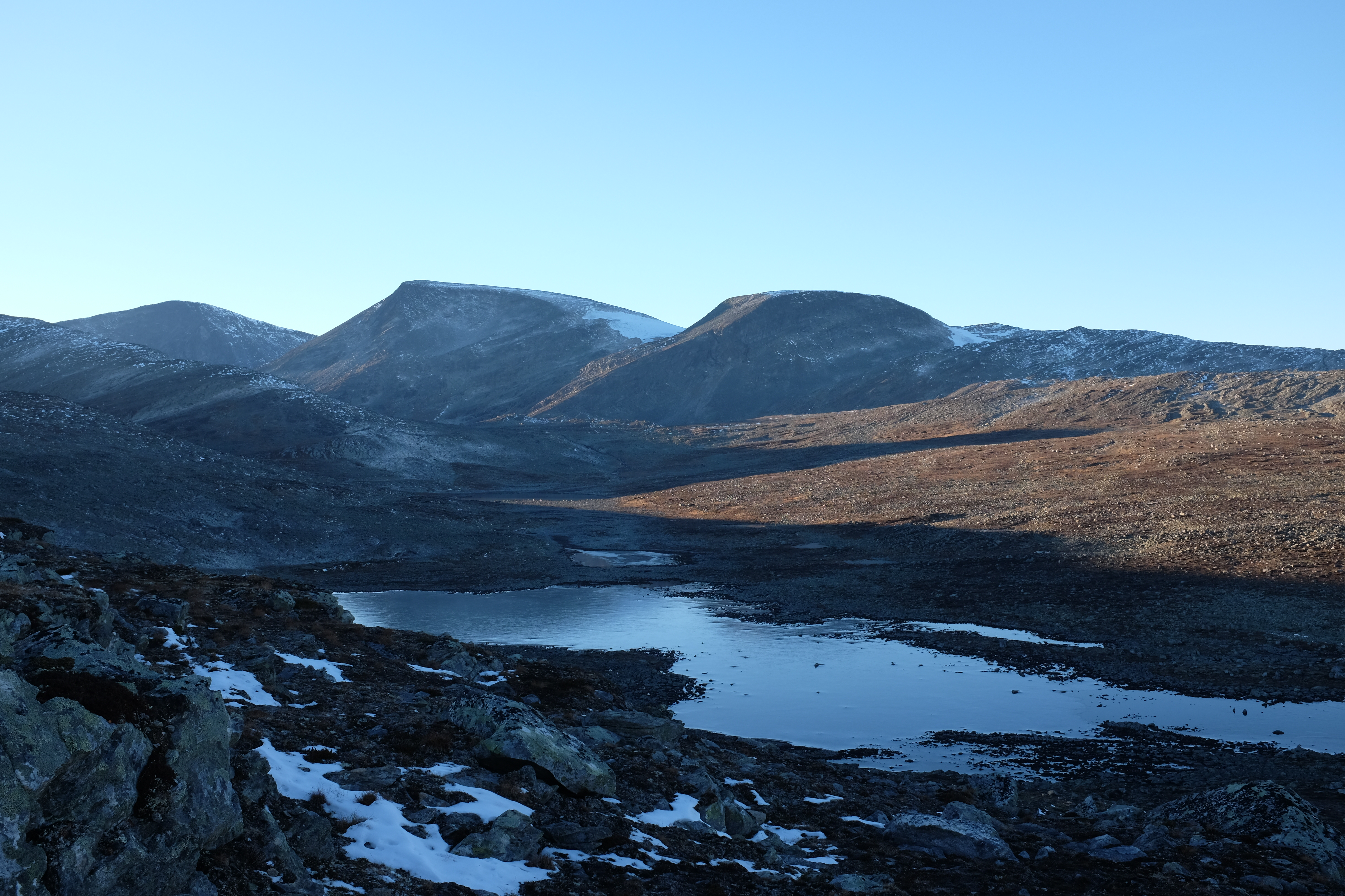 Storskrymten, Litlskrymten and Grytkollen. Grytholtjønnin in the front. Dovrefjell-Sunndalsfjella National Park, Norway.